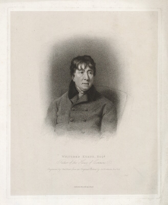 Portrait of Whitshed Keene (c.1731–1822), Irish soldier and politician.